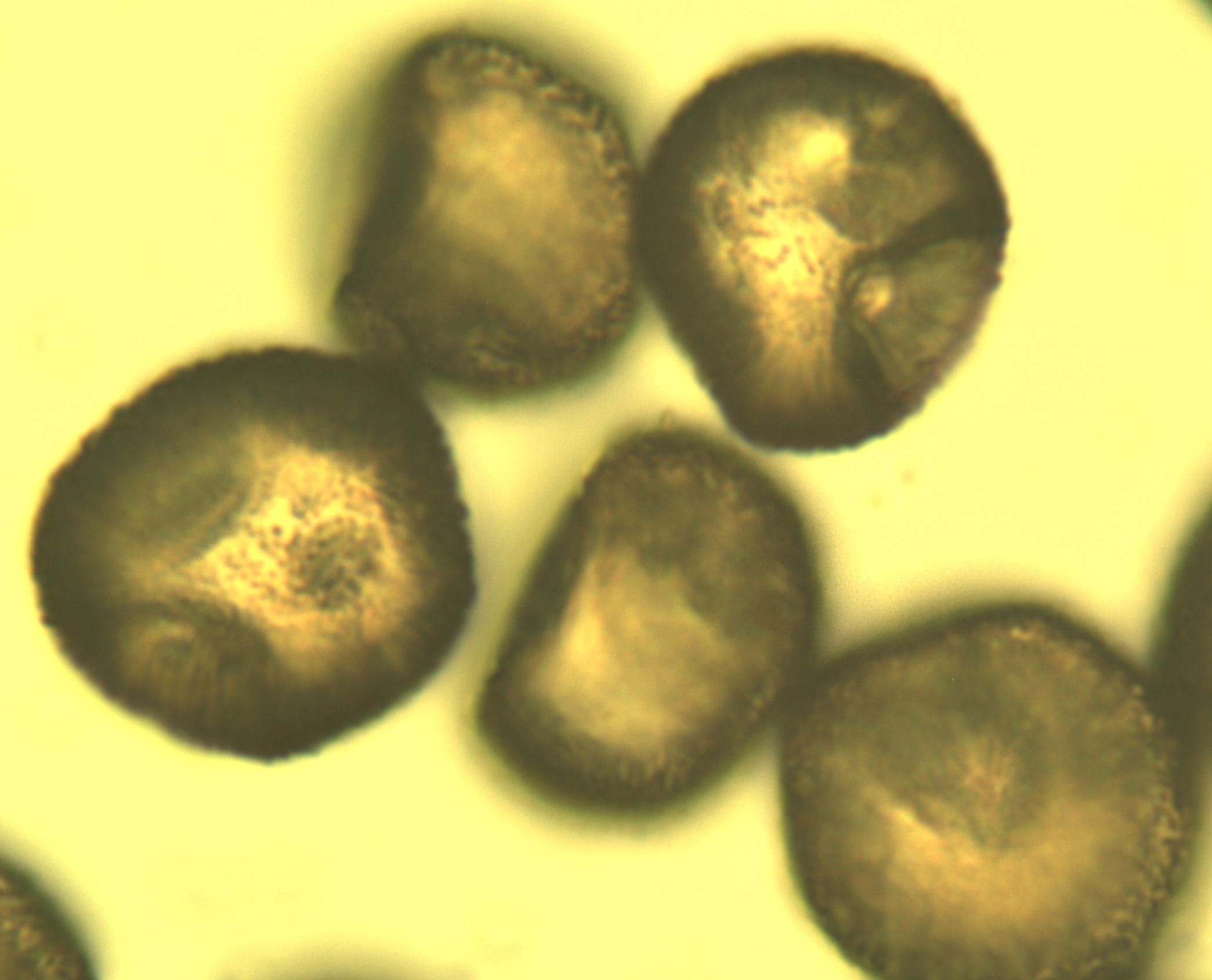 Chamaecyparis lawsonia pollen 400x